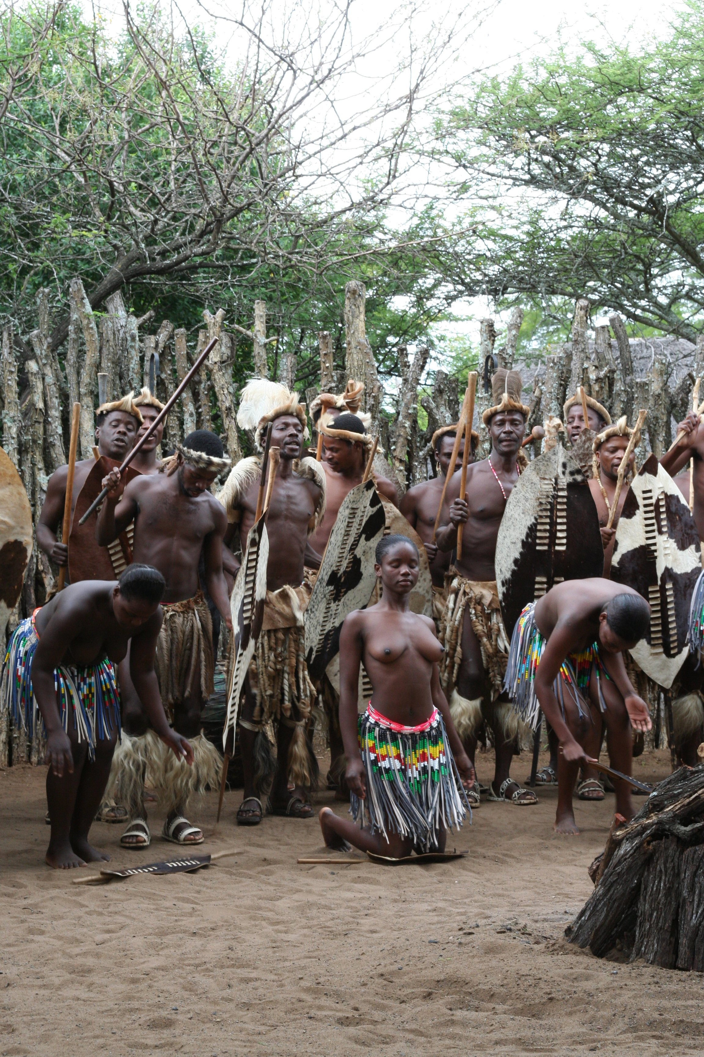 Zulus in South Africa during traditional dance